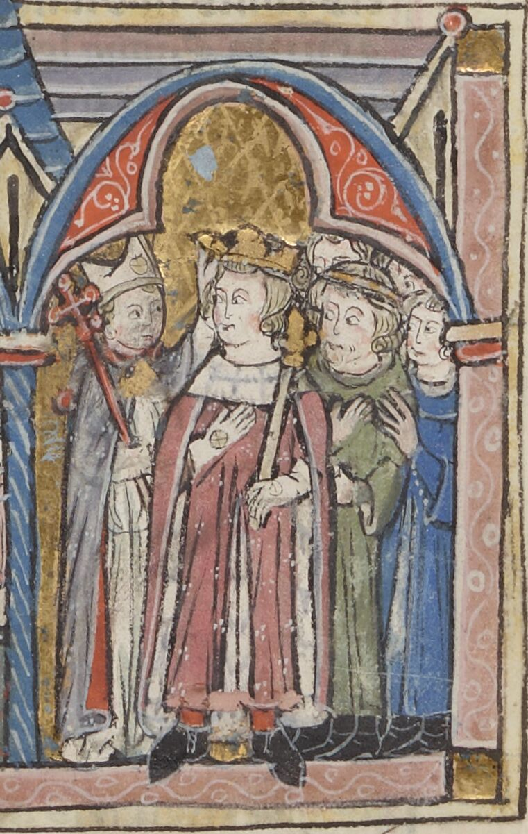 Coronation of Baldwin IV of Jerusalem. (BNF Français 2824)